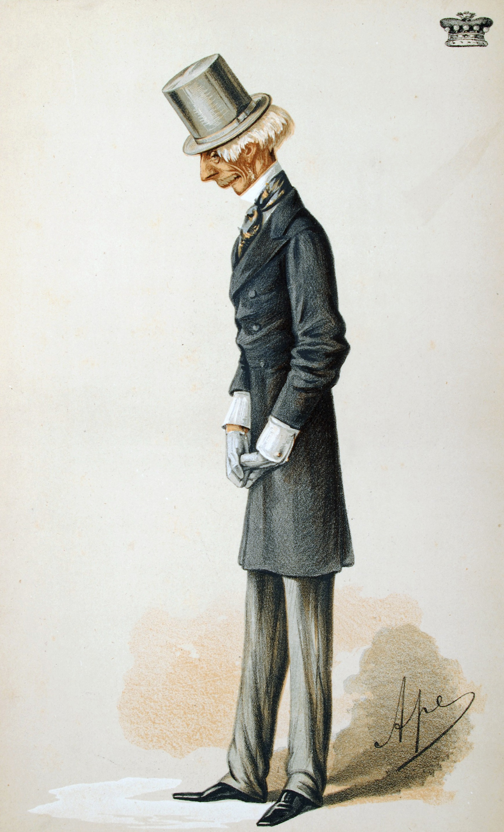 Caricature of Hugh Rose, 1st Baron Strathnairn. Caption read "He was made a Statesman because he was a soldier".